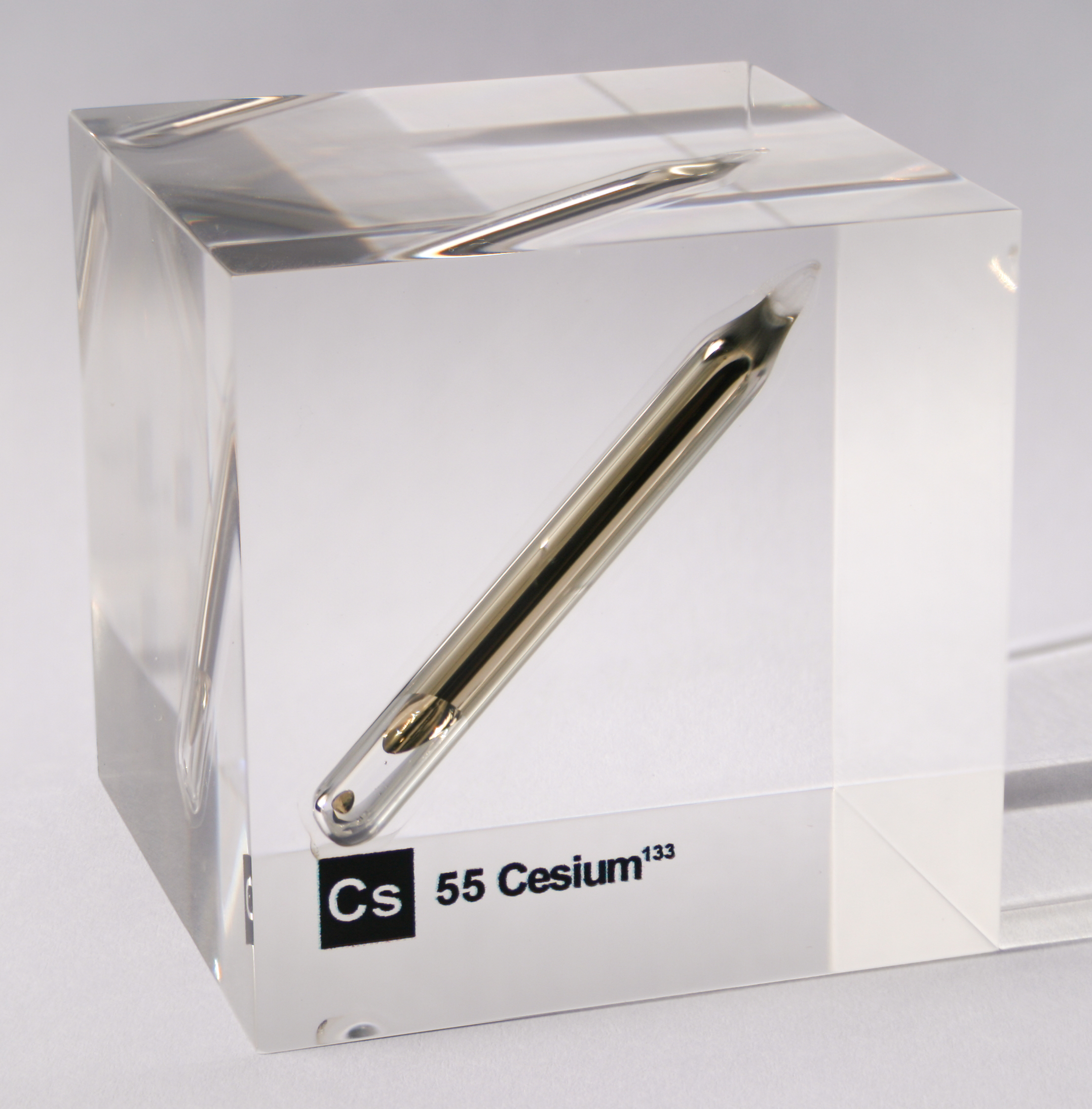 1g of Cesium element sealed under vacuum in ampoule, sealed in acrylic cube.